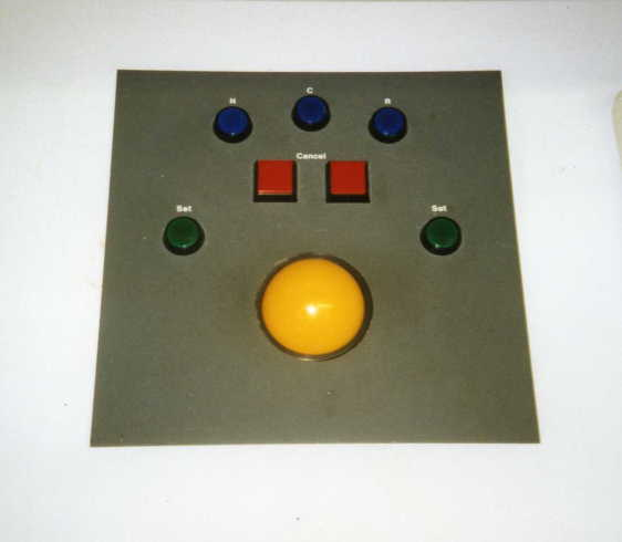 Scan of original photograph. Signalhead 11:55, 18 February 2007 (UTC)